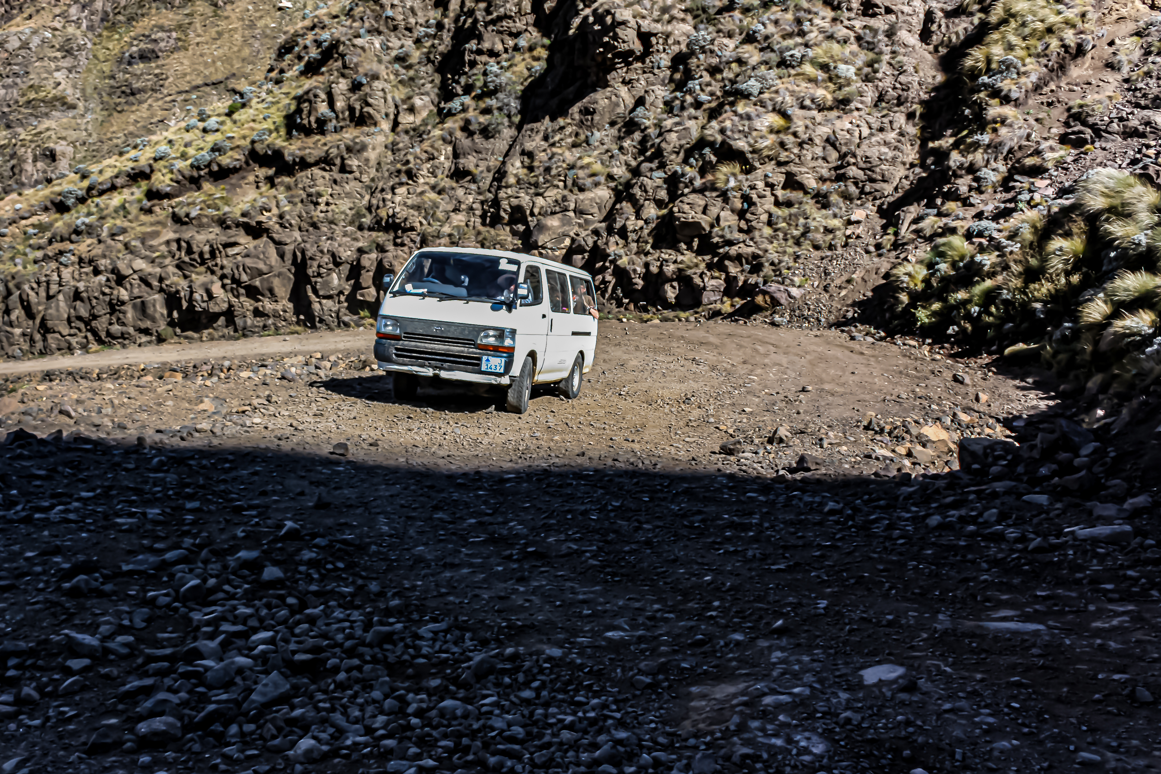 Route A3 in route to Katse between Masero in Lesto This is an image with the theme "Africa on the Move or Transport" from: Lesotho